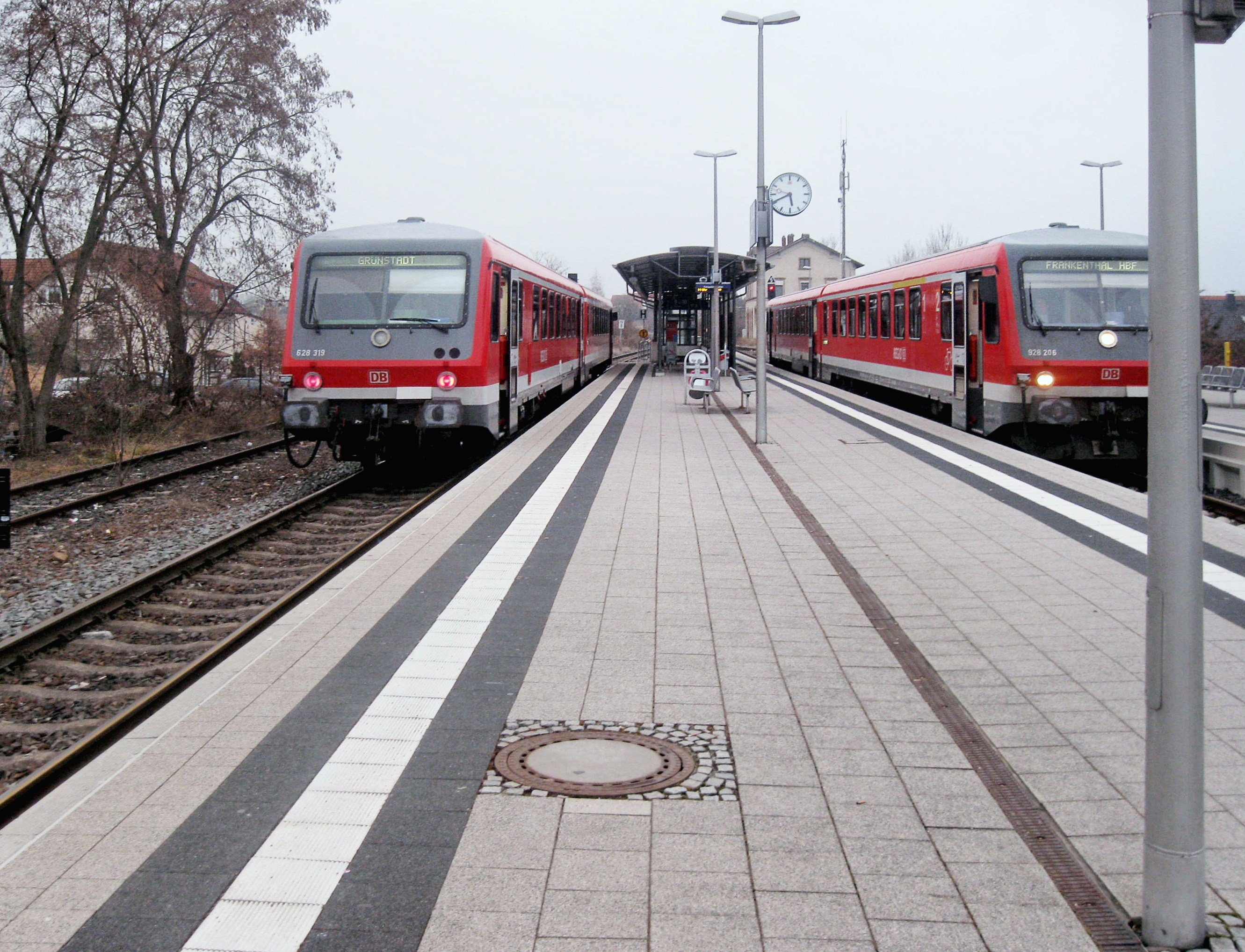 Train station at Freinsheim in the Palatinate